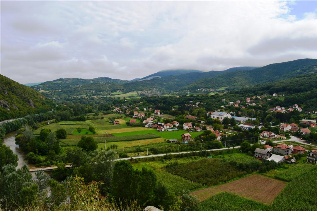 Raska Municipality -Brvenik